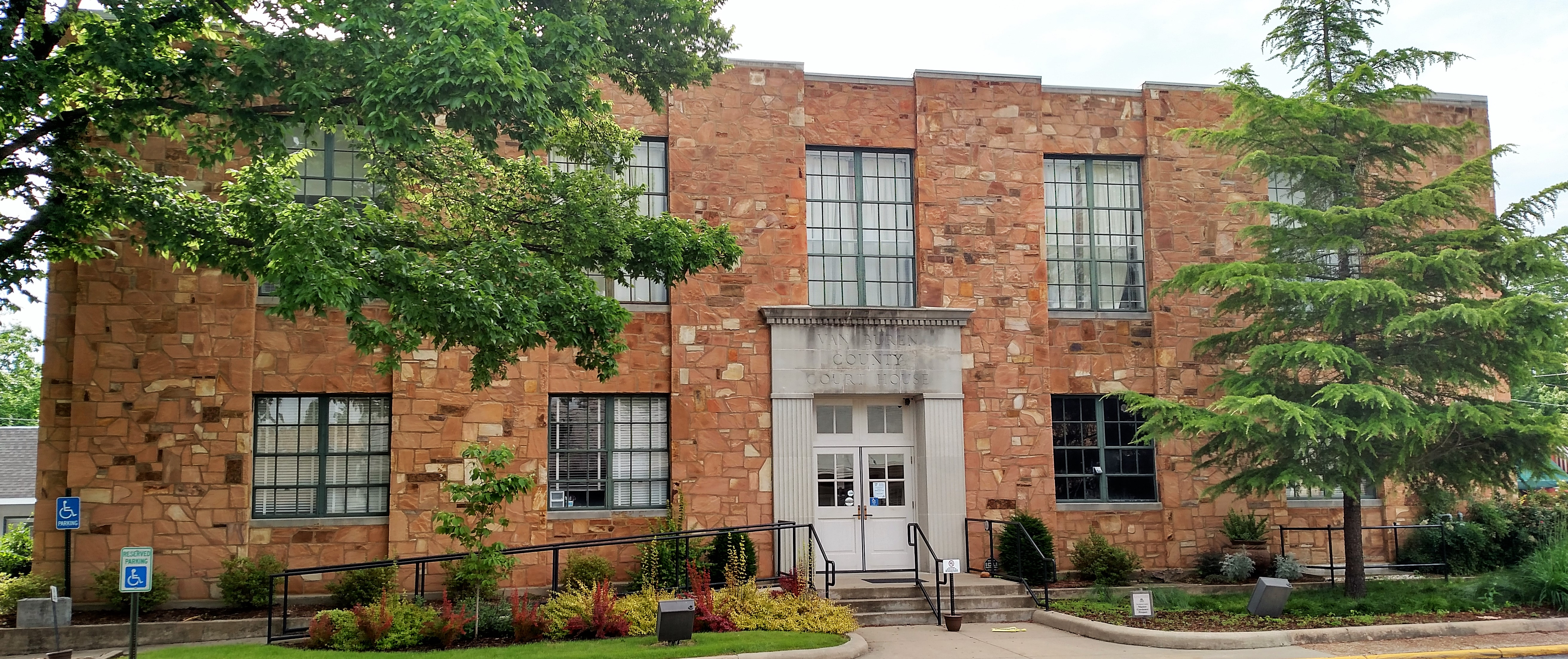 Front of the Van Buren Courthouse in Clinton, AR